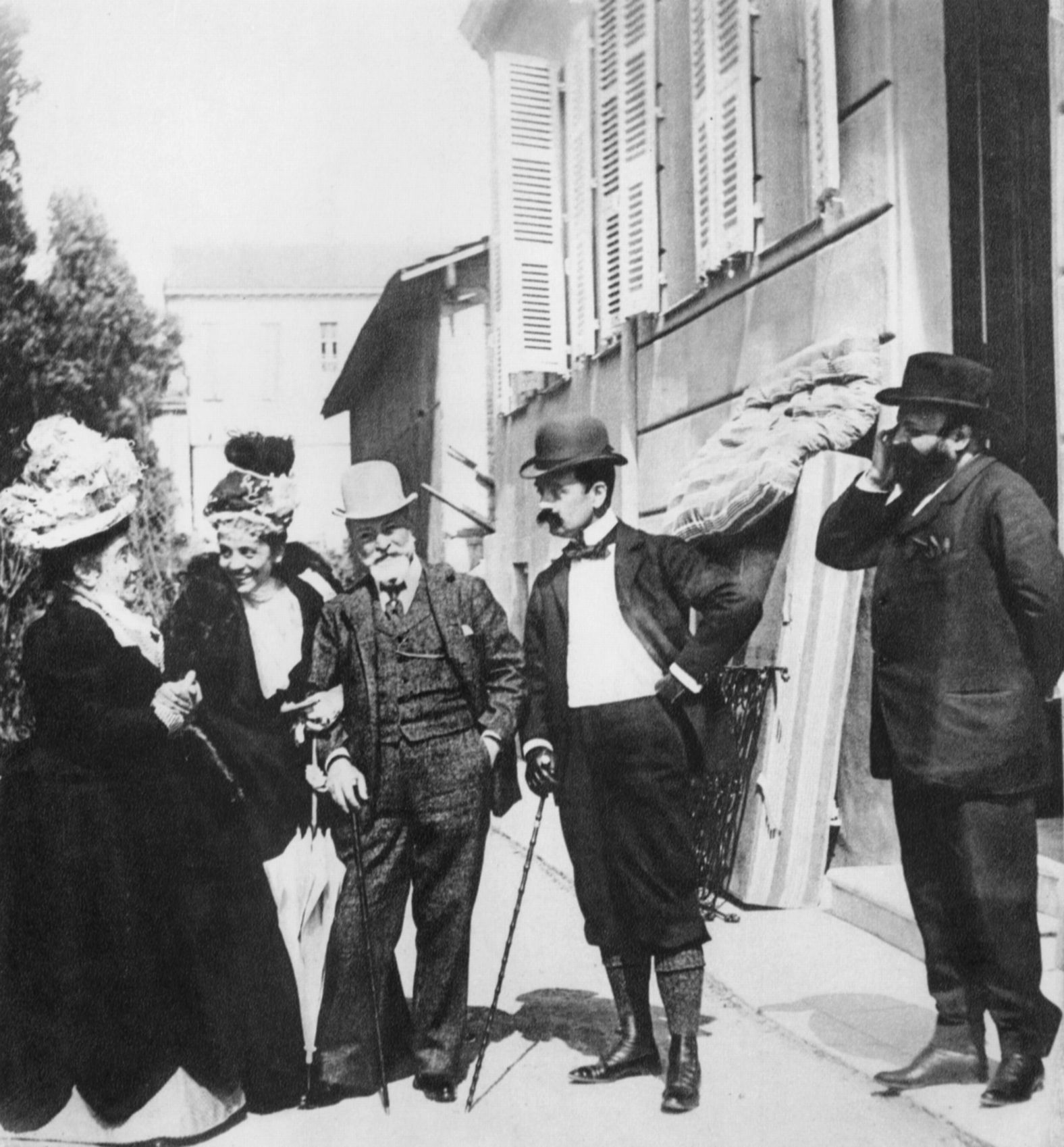 Eleonora Duse with Matilde Serao, Francesco Paolo and Tristan Bernard, 1897. Photo by Giuseppe Primoli (1851–1927).